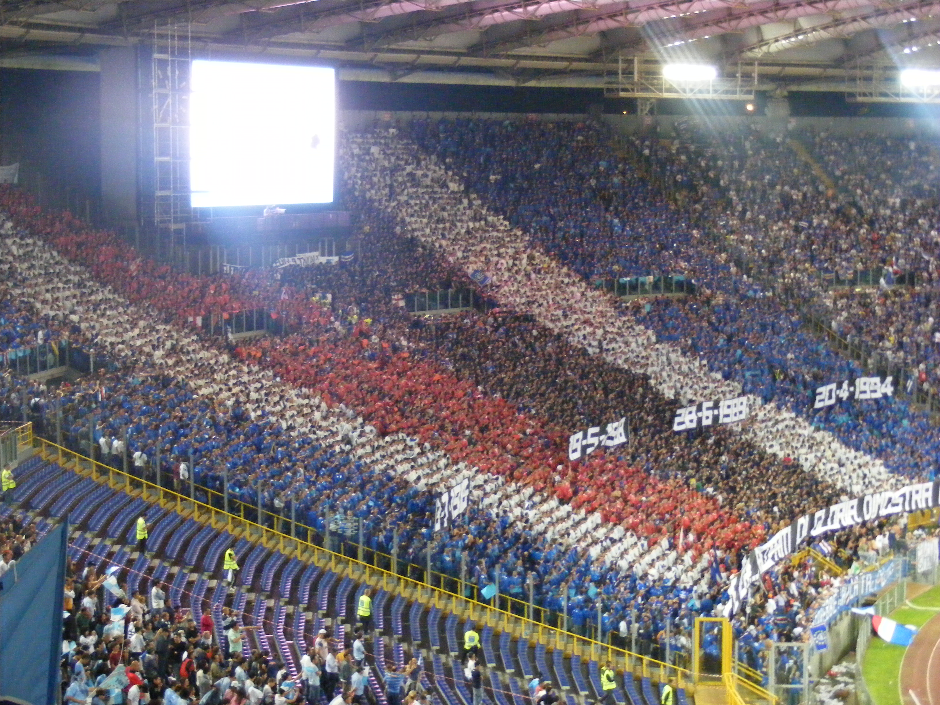 Supporters during Lazio-Sampdoria